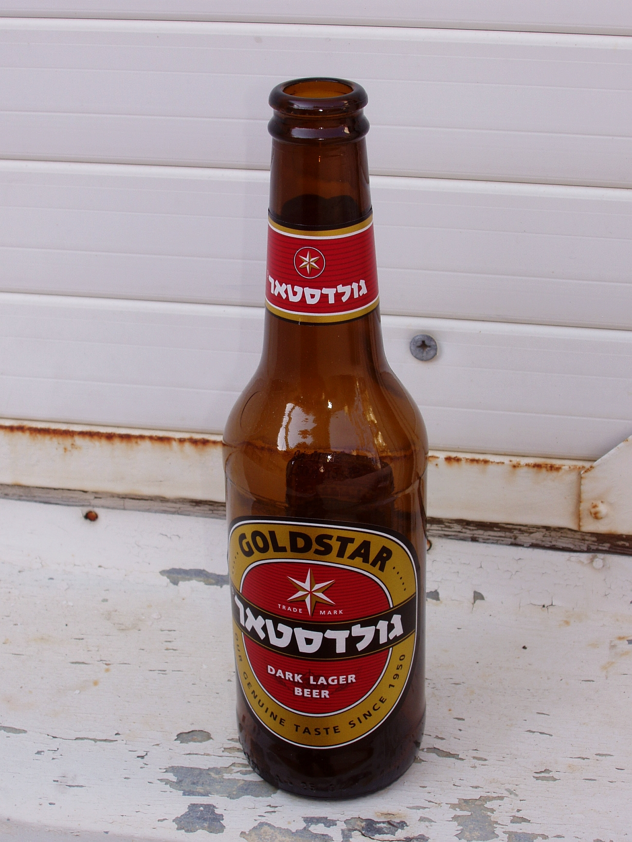 Hi-res picture of a goldstar beer bottle ("as far as i know, this is the only hi-res picture online of a Goldstar bottle - one of the world's finest lagers, if not the finest.")